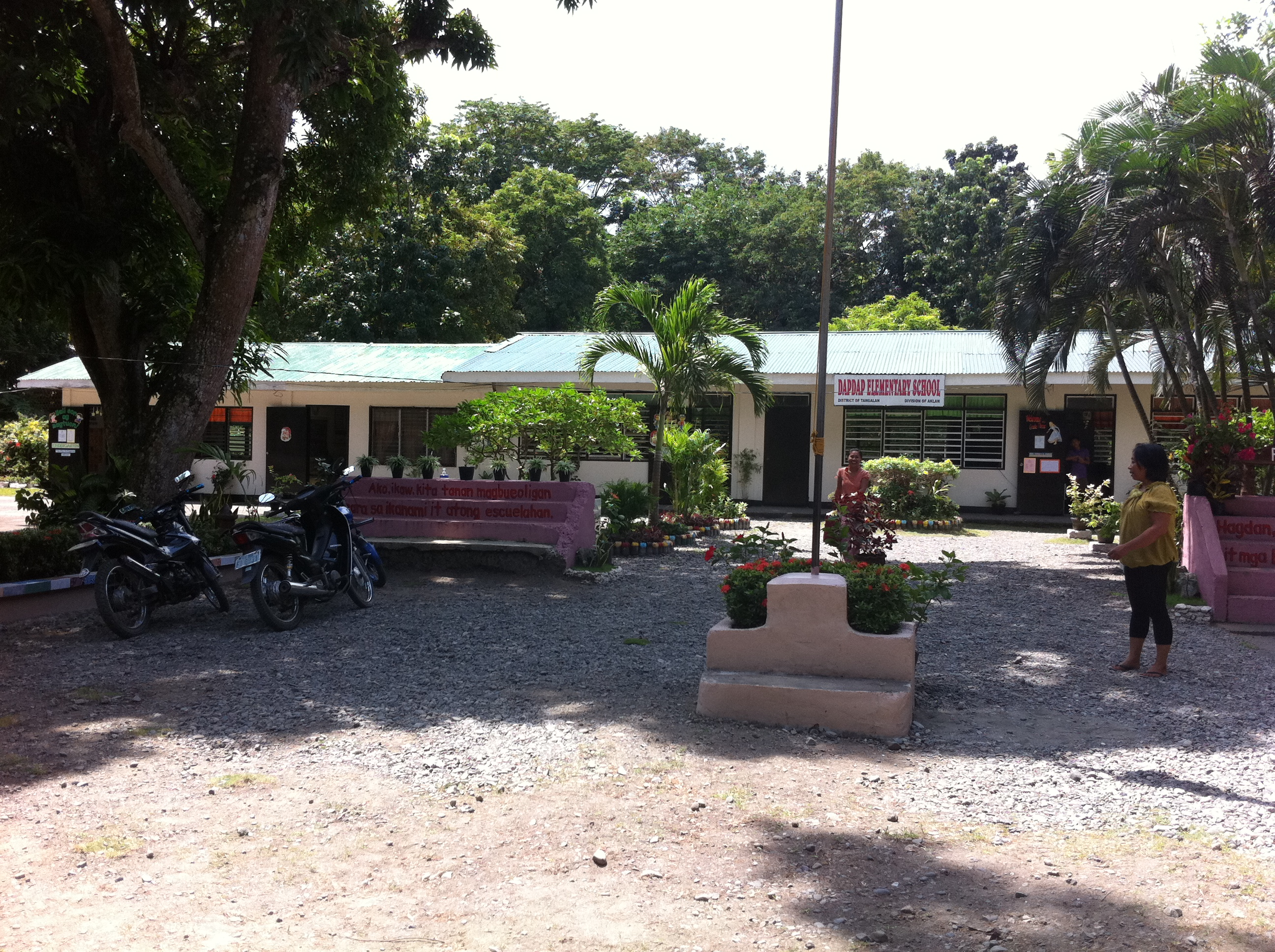 The front of the Dapdap elementary school.